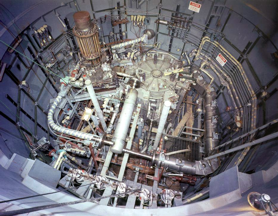 Top down view of the MSRE